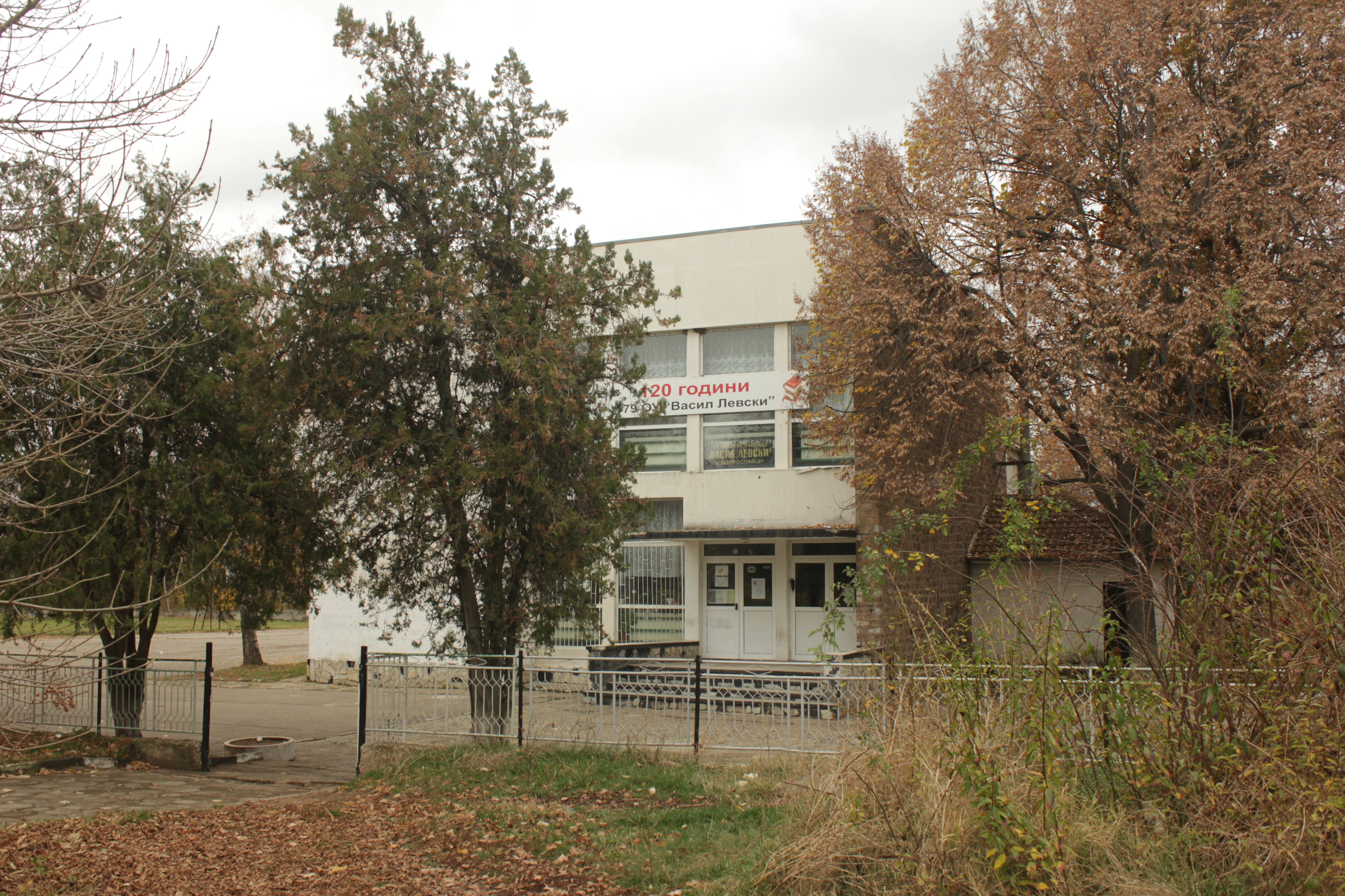 120 years old School in Dobroslavtsi "Vasil Levski"